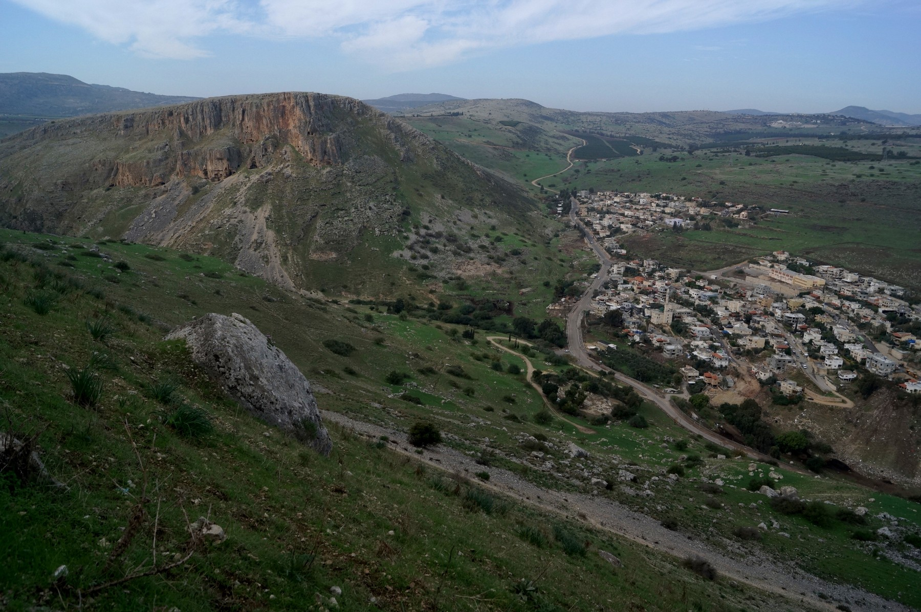 Geography of Israel